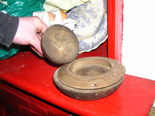 Butter stamp, Seán Mac Diarmada's House Everybody had their own individual stamp to indicate where it was made. Warm water was poured on to soften the butter to make the impression with the carved template.